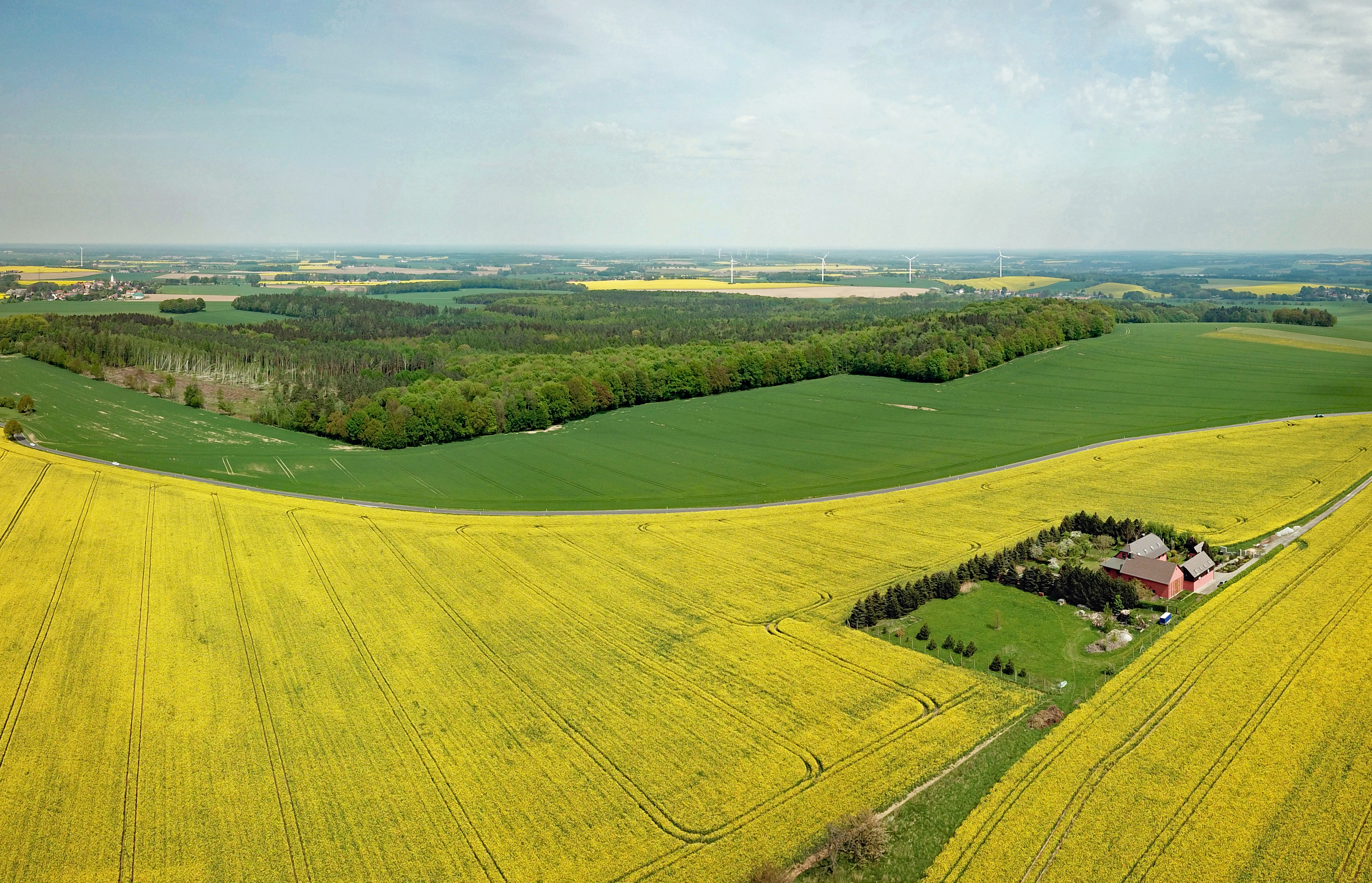 Taucherwald (Burkau, Saxony, Germany) Hornjoserbsce: Powětrowy wobraz Tuchorskeho lěsa